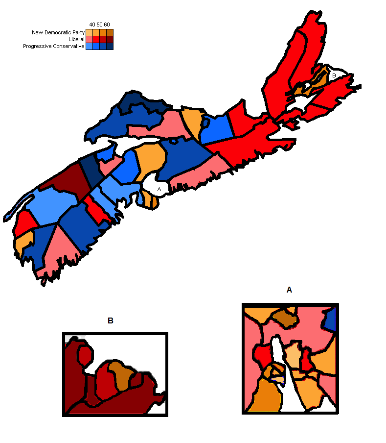 Riding-by-riding vote share for each party in the 1998 Nova Scotia election.